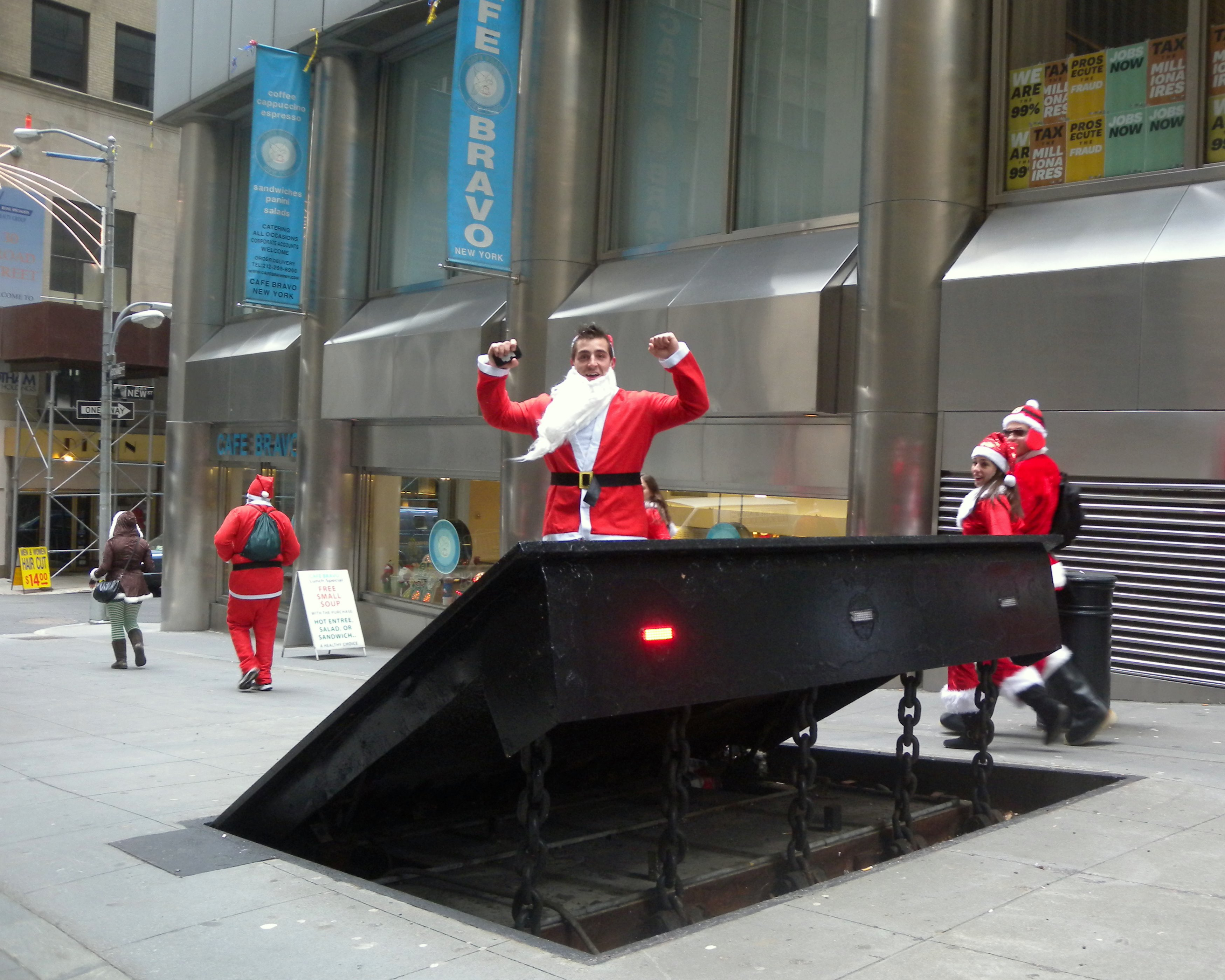 Looking south at Exchange Place hydraulic roadblock near Broadway on a cloudy day.